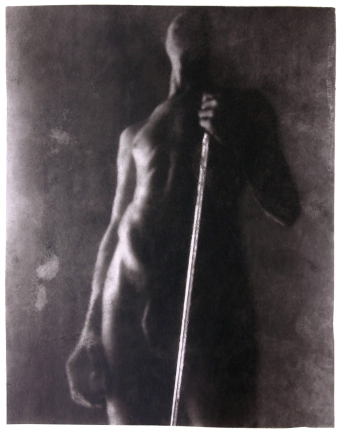 Photograph from Michal Macků